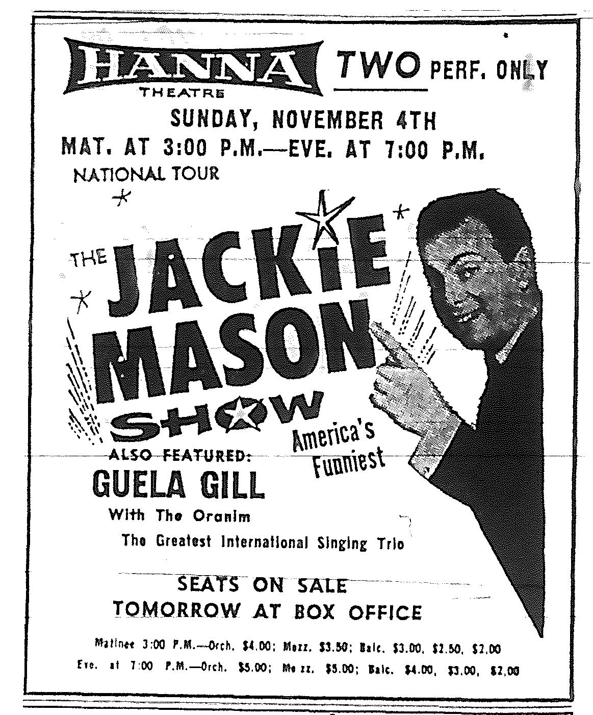 Flyer showing Jackie Mason.